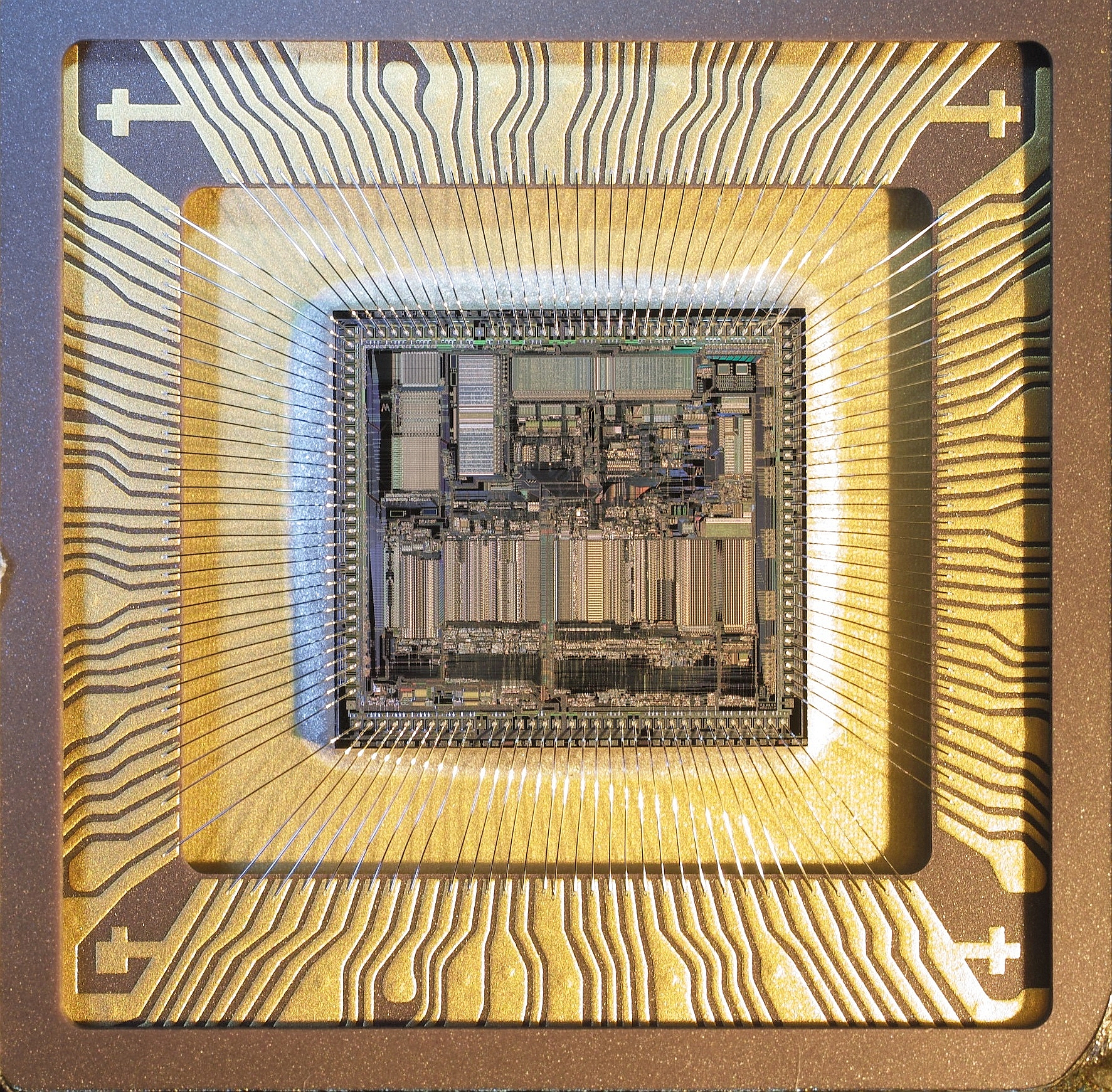 Motorola MC68030RC33B Die Image